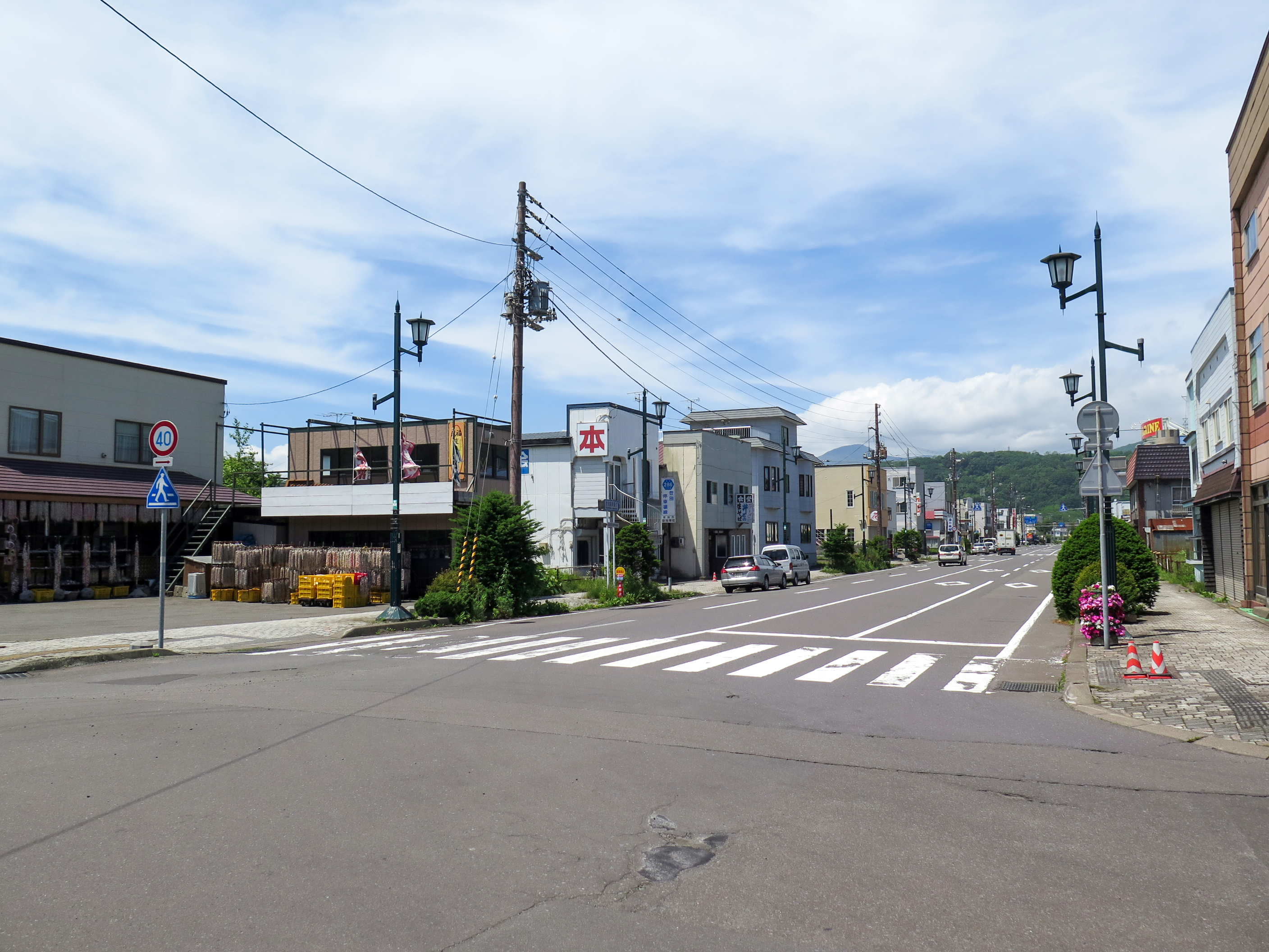 Noboribetsu-shi Town Centre